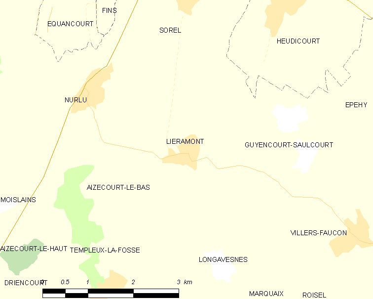 Map of French municipality Liéramont